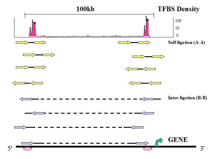 Science